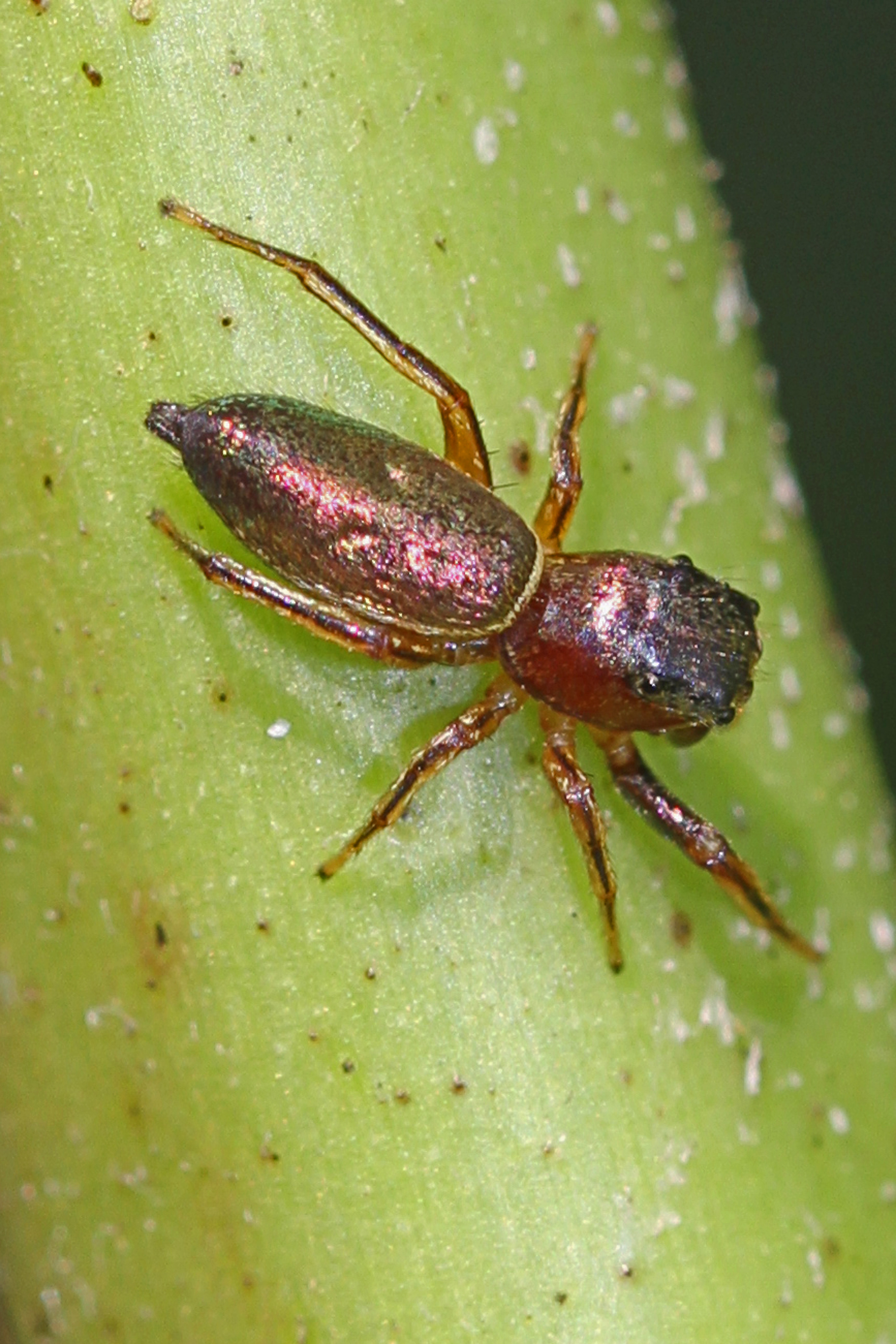 Jumping Spider - Tutelina elegans, Julie Metz Wetlands, Woodbridge, Virginia